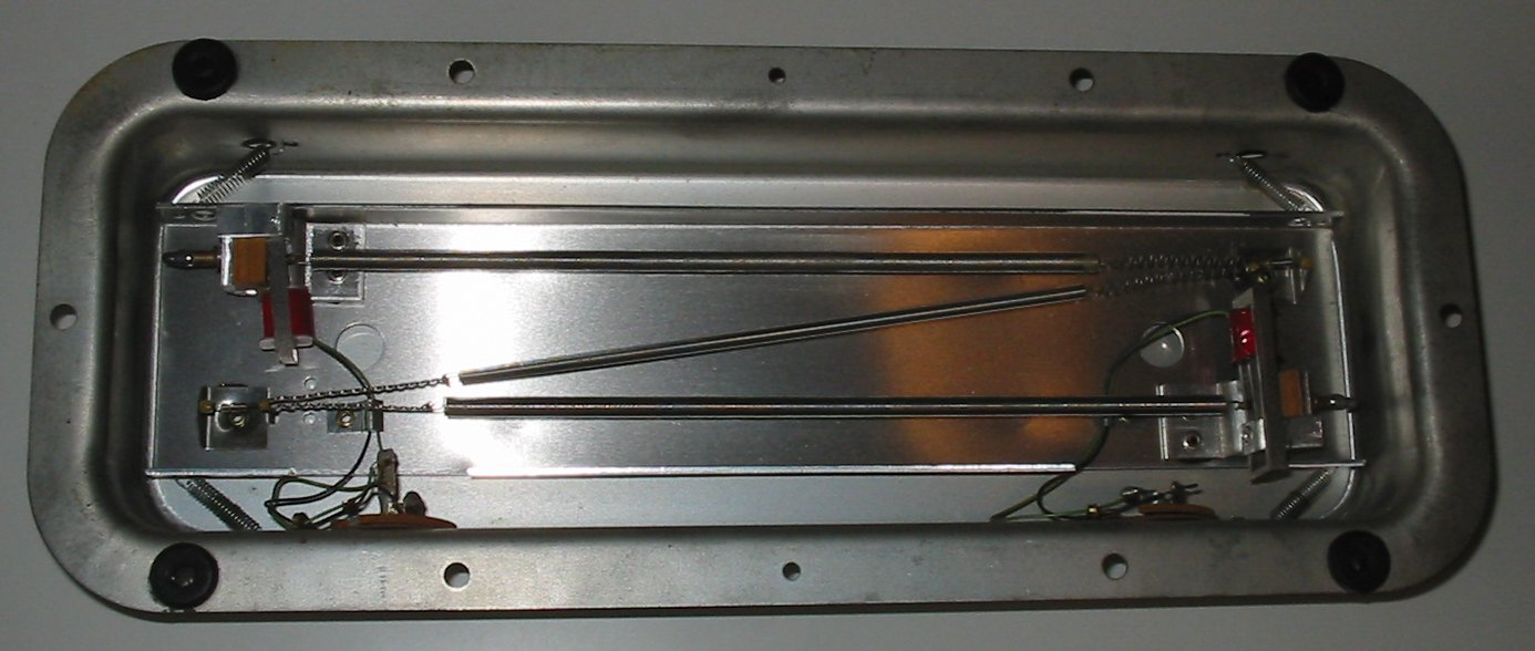 O. C. Electronics, inc. Folded Line reverberation device Manufactured by beautiful girls in Milton, Wis. under controlled atmosphere conditions. U.S. pat. 3,363,202 / Canadian pat. 825,330 Type 60